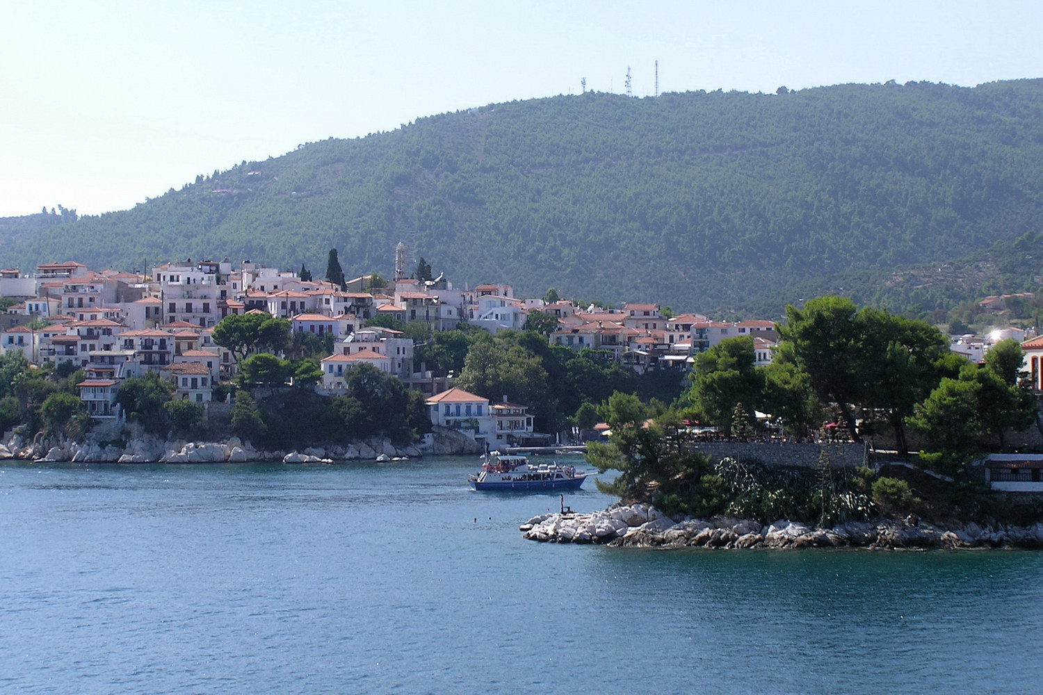 Skiathos town, Sporades, Greece.